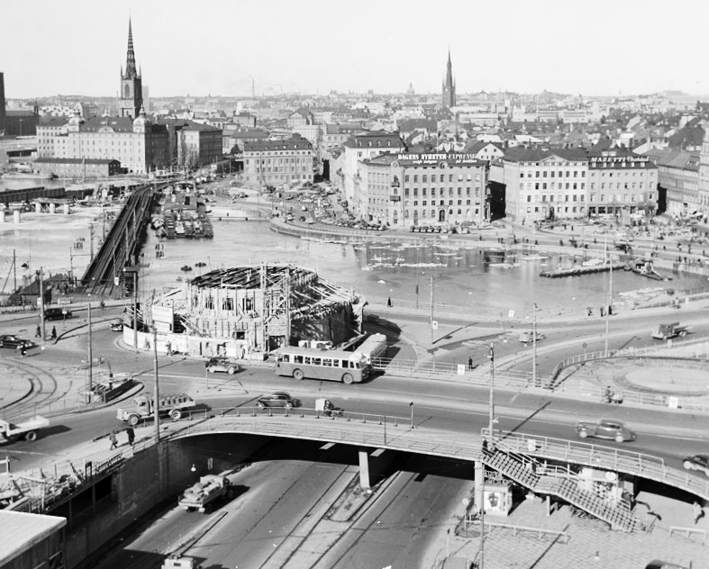 Construction Kolingsborg